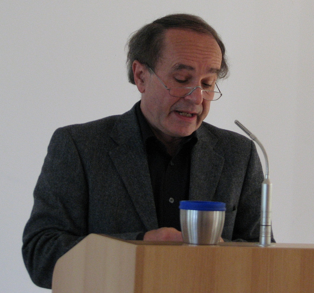 Michael von Brück